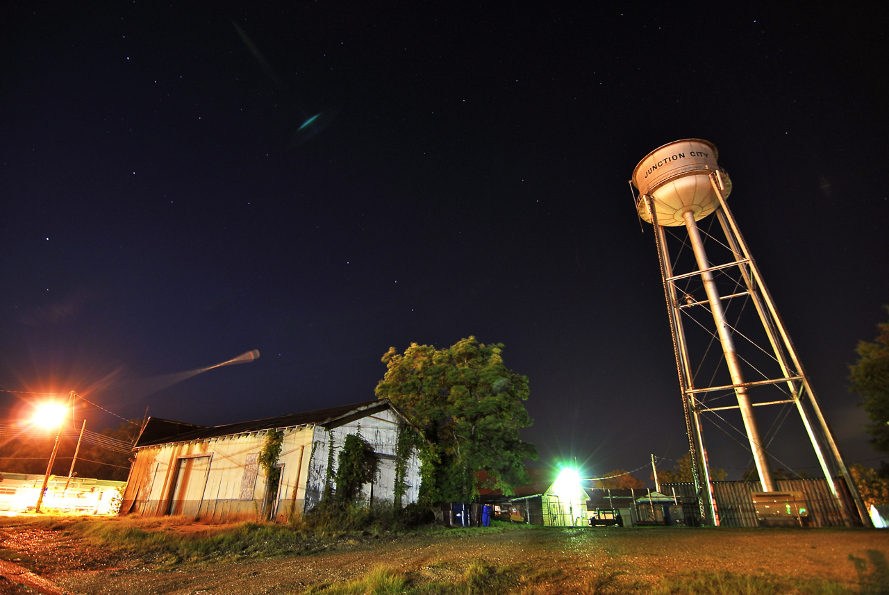 "Downtown" Junction City on the Arkansas side of the border